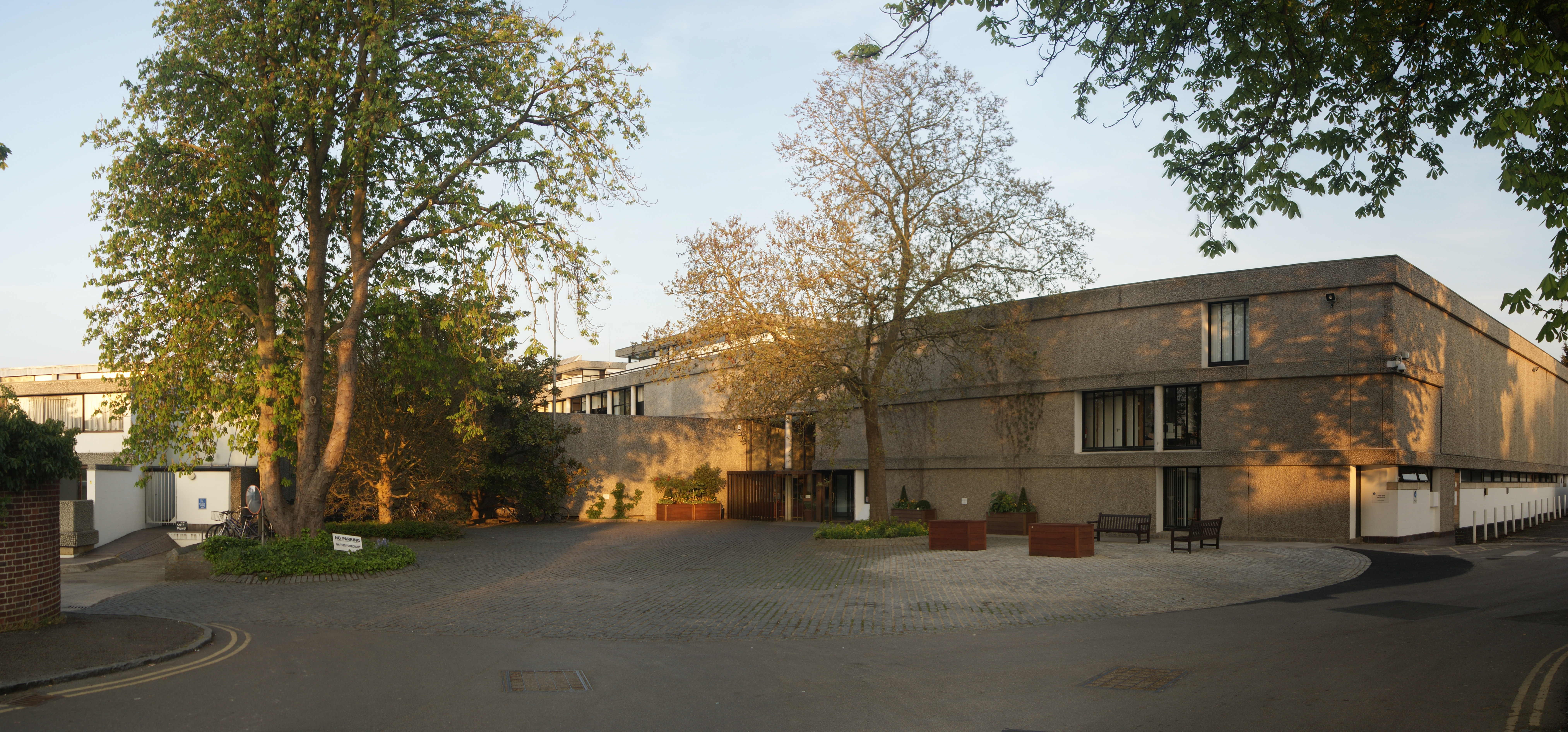 Photo of the forecourt of Wolfson College, Oxford, at the eastern end of Linton Road. In the centre the entrance to the porter's lodge can be seen. In 2011, building started of the Leonard Wolfson Auditorium, which was opened in June 2013. Earlier, in January 2011, the bike shed on the forecourt was demolished (previous situation) and replaced by benches and flower boxes. This image is a stitching of six separate photos, using Autostitch.